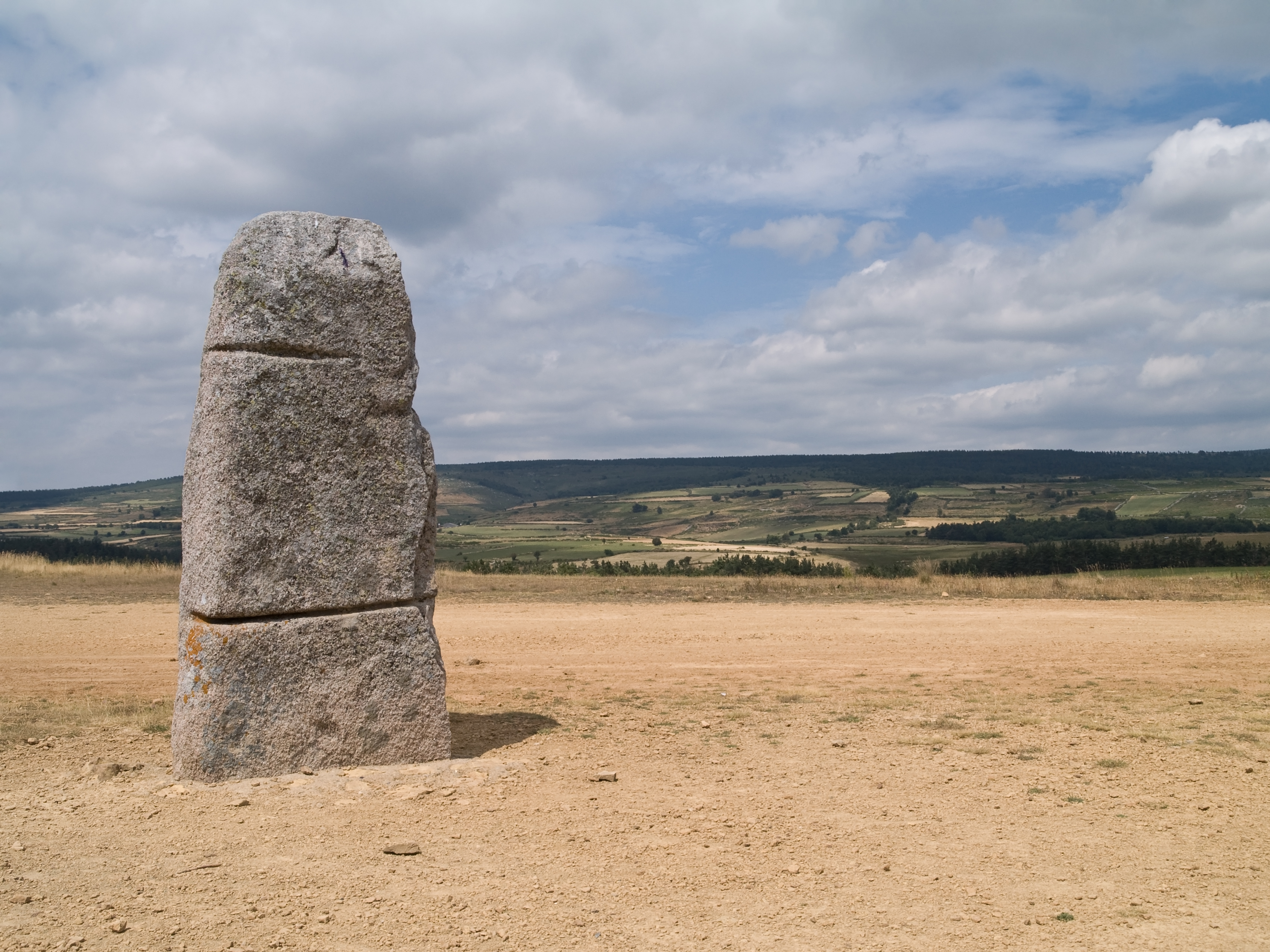 The « Pierre des trois paroisses » (=‘Three Parishes Stone’), one of the standing stones in the ‘Cham des Bondons’ site, Lozère, France.